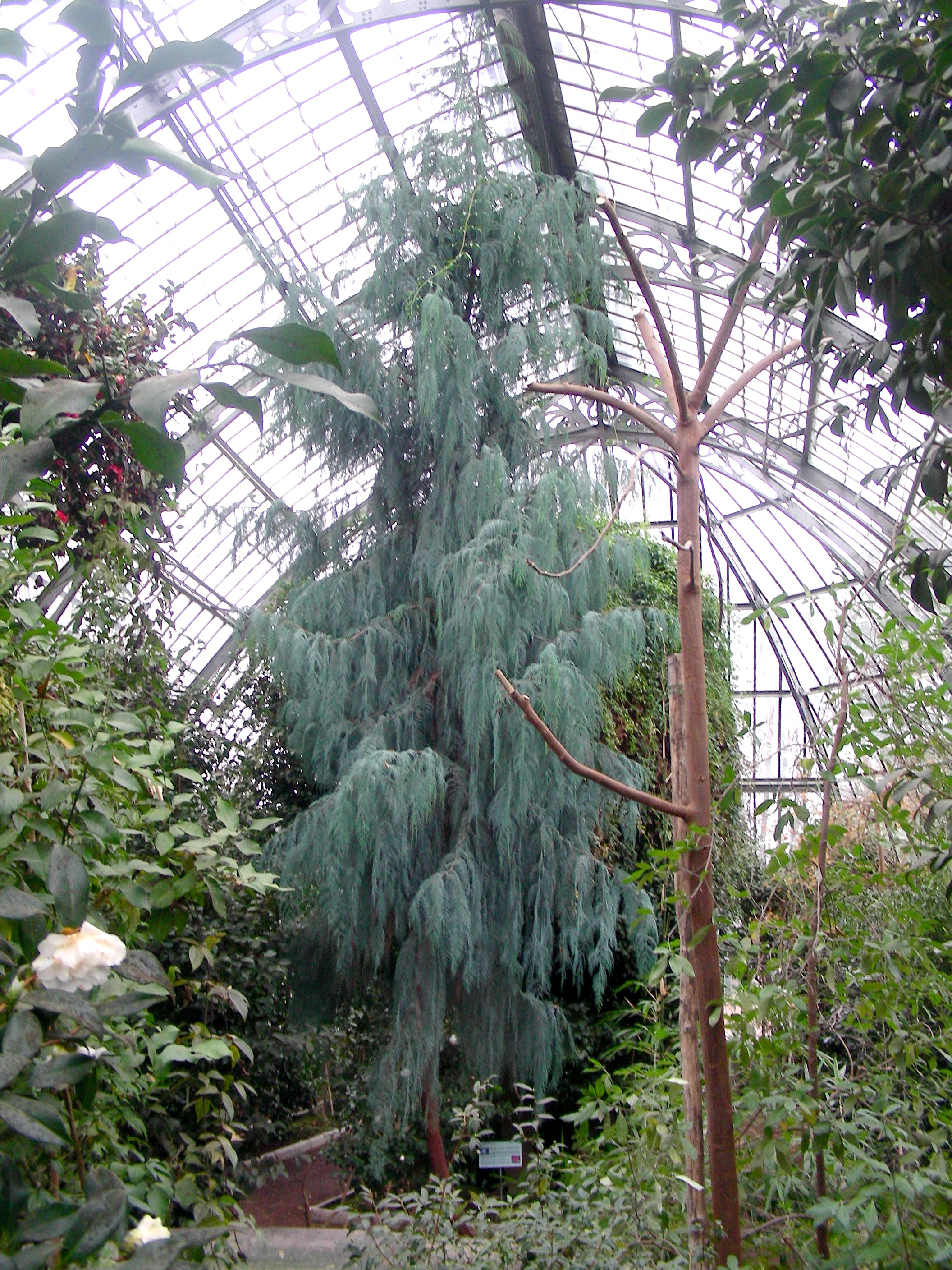 Cupressus cashmeriana